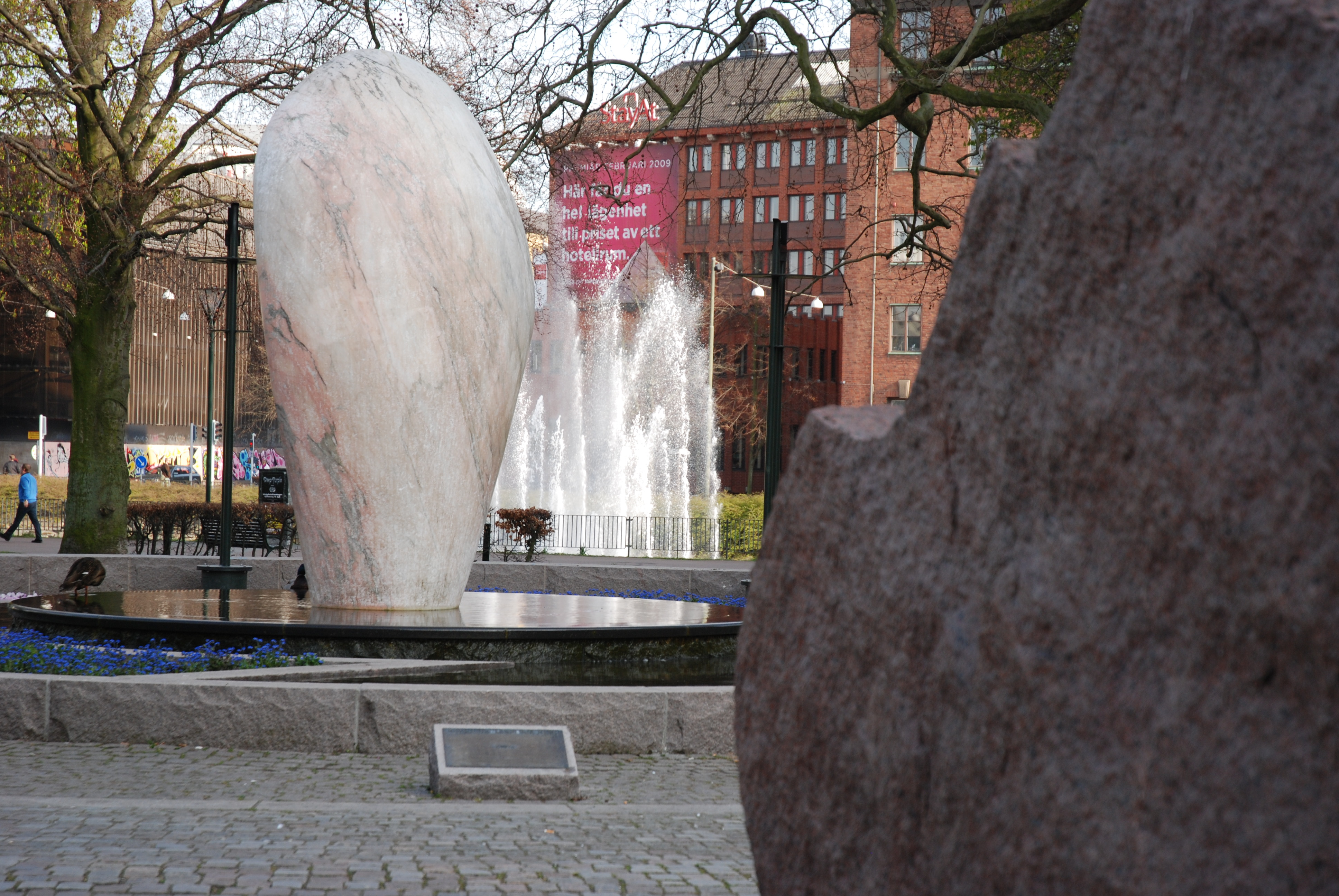 Staffan Nihlén´s Pienza (1992-93), marble, Raoul Wallenbergs park, Malmö, Sweden